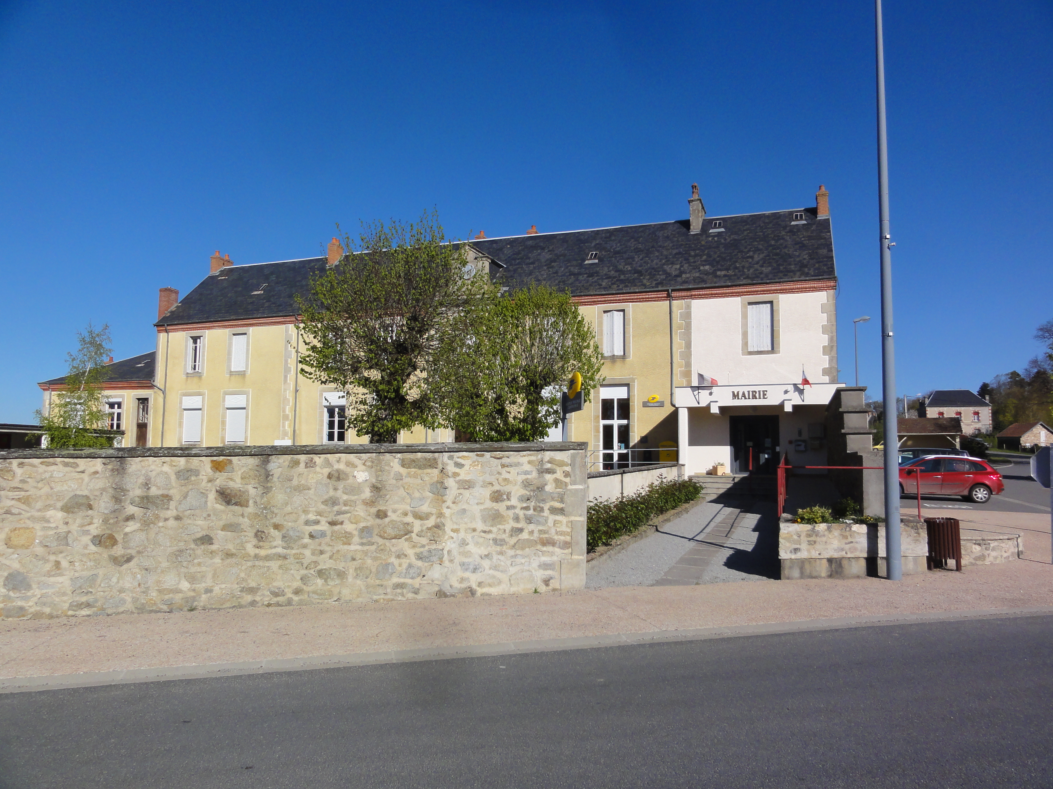 Saint-Maurice-près-Pionsat (Puy-de-Dôme) mairie